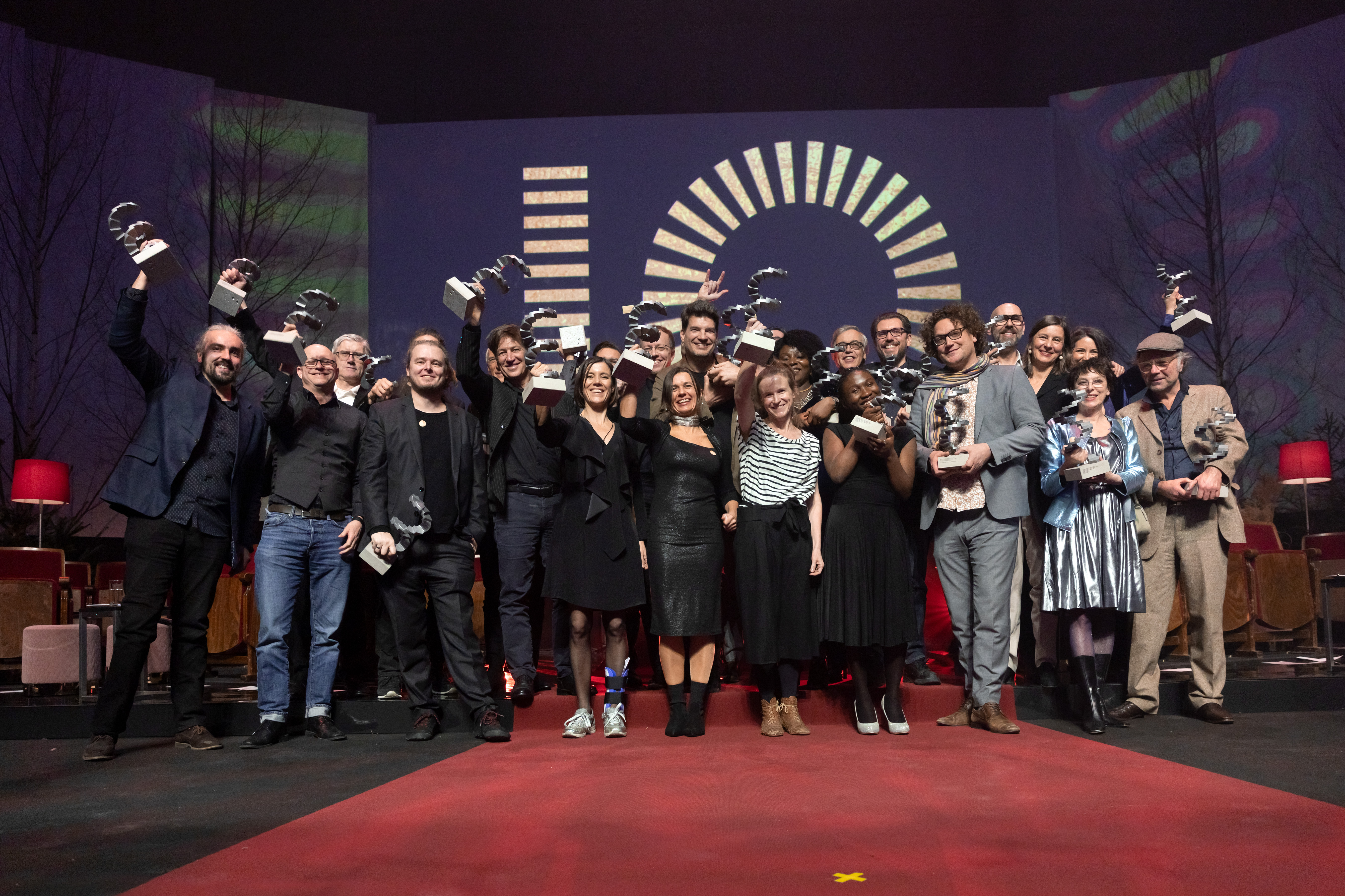 Awardees of the Austrian Film Awards 2020 (Auditorium Grafenegg at Grafenegg Castle, Lower Austria,Austria).